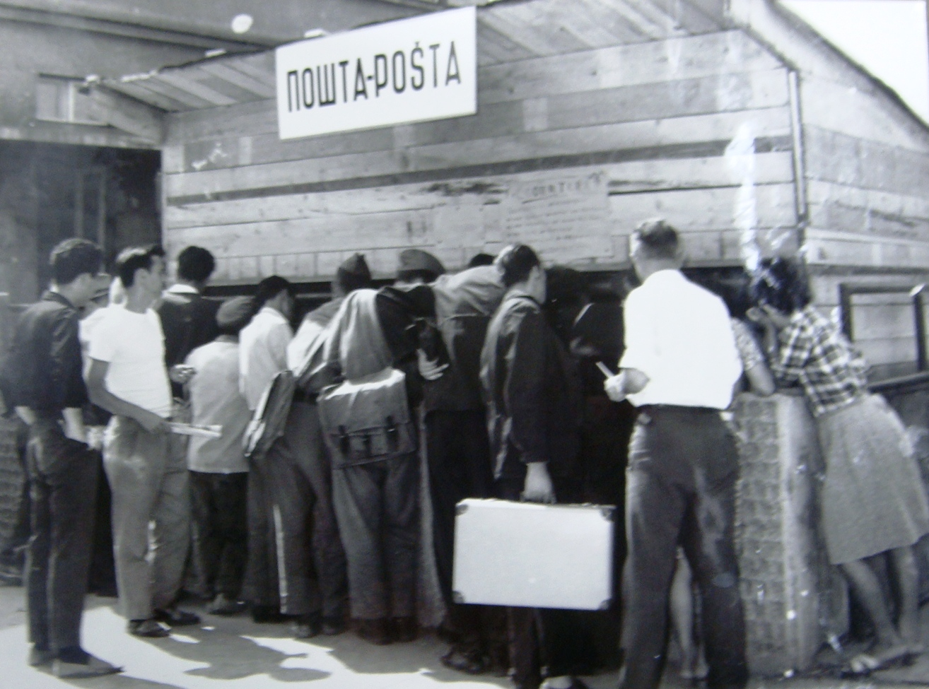 1963 Skopje earthquake: The first improvised post office, telegraph and telephone, started to work on July 27, 1963 This media file is produced by Wikipedian in Residence in Category:Wikipedian in Residence at DARM in 2016.